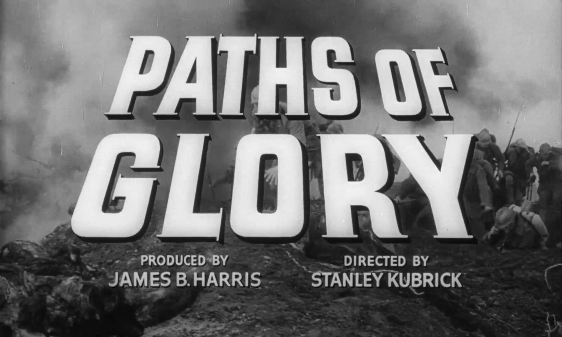 Title logo of the film "Paths of Glory! (1957)